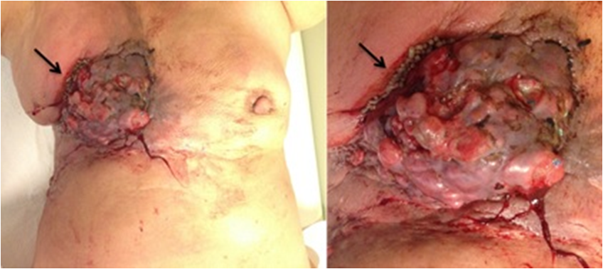 A case of human breast myiasis caused by Lucilia cuprina : Ulcerate lesion in the right breast and larvae in the wound Abstract : Myiasis is a parasitic infection that occurs as a result of larvae, settling in living tissues and organs, observed especially in tropical regions and rural areas where animal contact is common. Diagnosis is established by observing larvae of Diptera species in tissues and organs. In treatment planning, determining the type of larvae as well as affected organ and systems is important in terms of treatment and follow up. In this case report, we discussed a female patient with ulcerated mass in the right breast in whom Lucilia cuprina larvae caused myiasis after a holiday in the summer in a village.